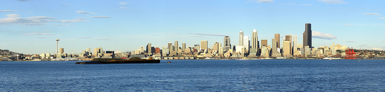 Seattle, Washington skyline Uploaded to en: by User:DubbaG on January 25, 2005 without a license User:Zeimusu on March 6, 2005, added that the copyright holder confirmed by email that the image is licensed under GFDL This version has been cropped relative to the source. In email, the copyright holder confirmed to User:Zeimusu that he is the uploader, and this image is licenced under GFDL